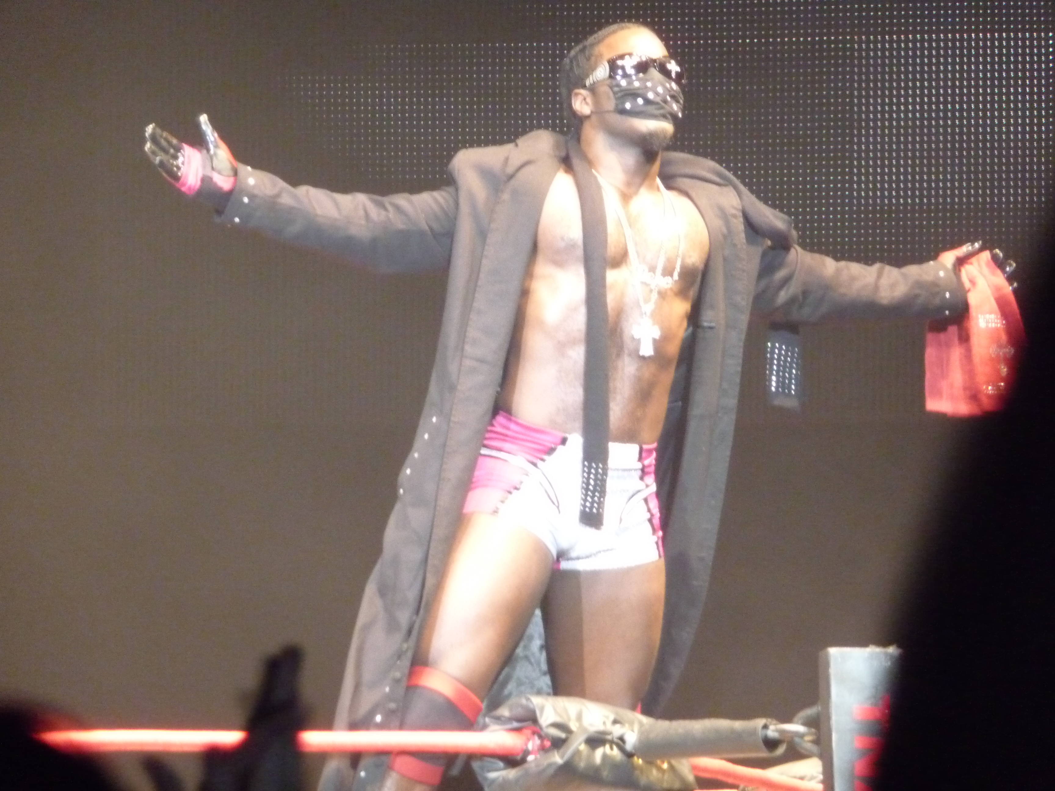 Professional wrestler 'The Pope' D'Angelo Dinero posing prior to a match at a TNA show in Wembley Arena on January 30, 2010.